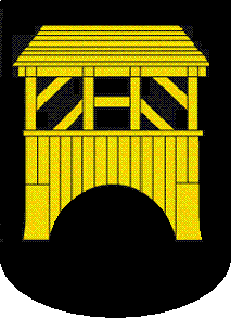 Blazon of Rickenbach, Canton of Thurgau, SwitzerlandEsperanto: Blazono de Rickenbach, Kantono Turgovio, Svislando